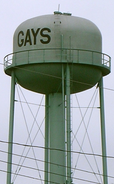 Water tower in Gays, Illinois. Photo taken with a Nikon 3200 and edited with GIMP 2.2.